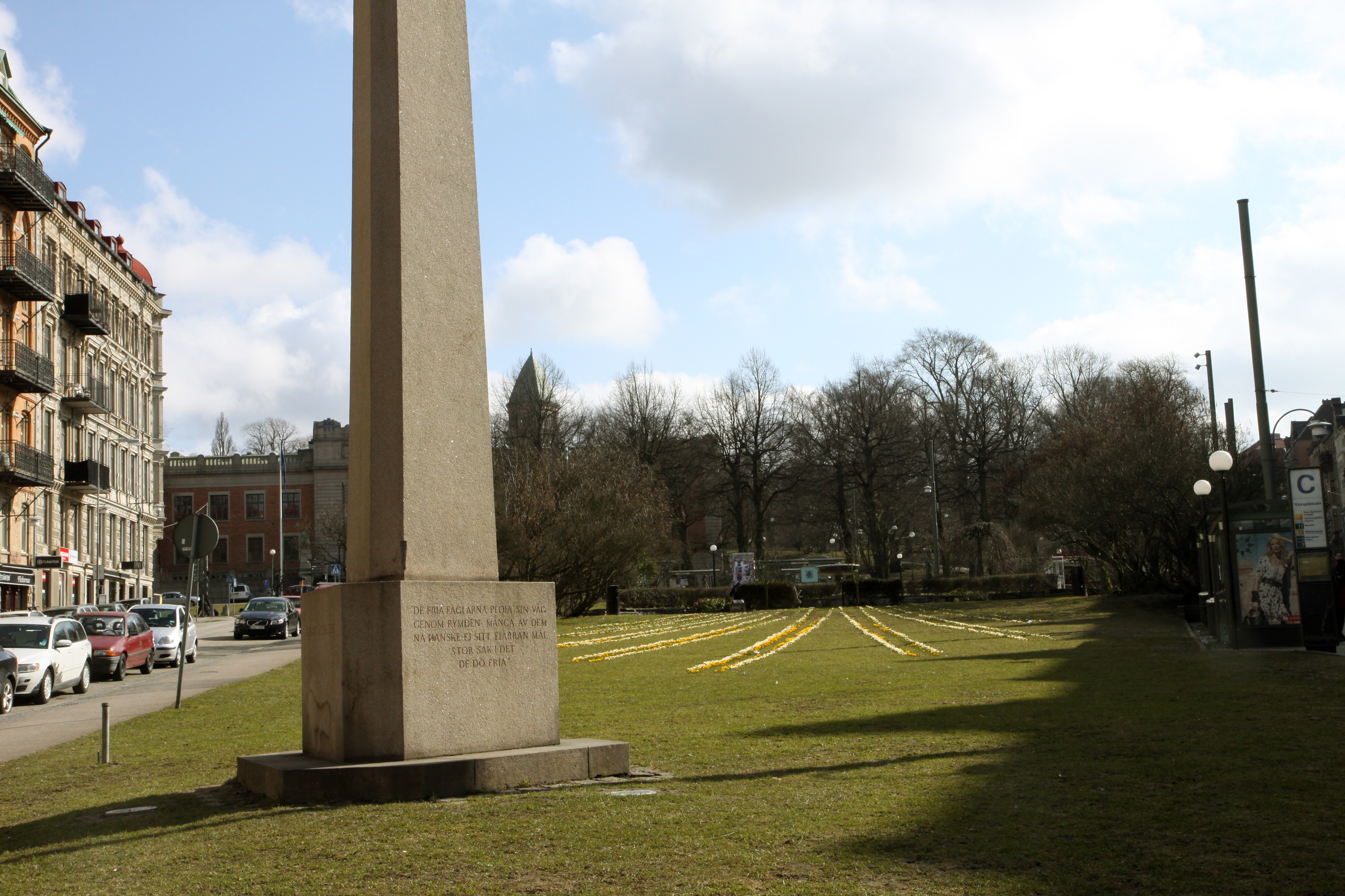 A view of Vasaplatsen in Gothenburg Sweden.